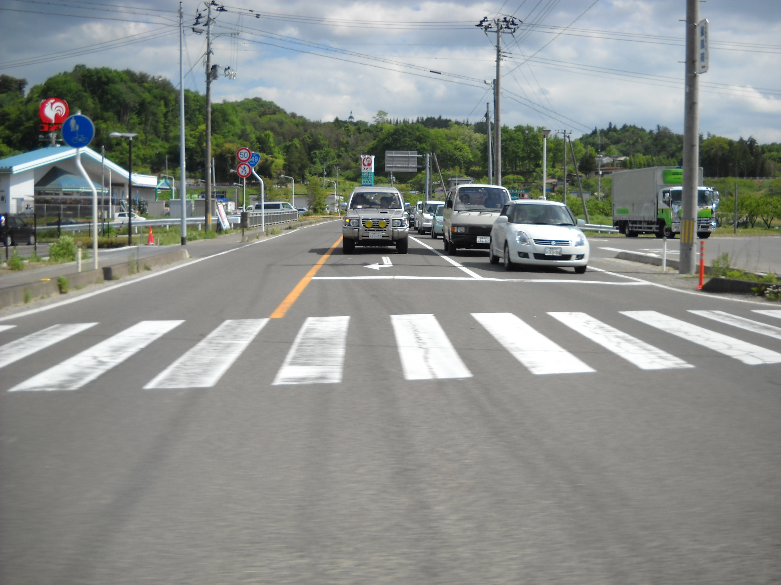 Route349 of date city, Fukushima pref., Japan.